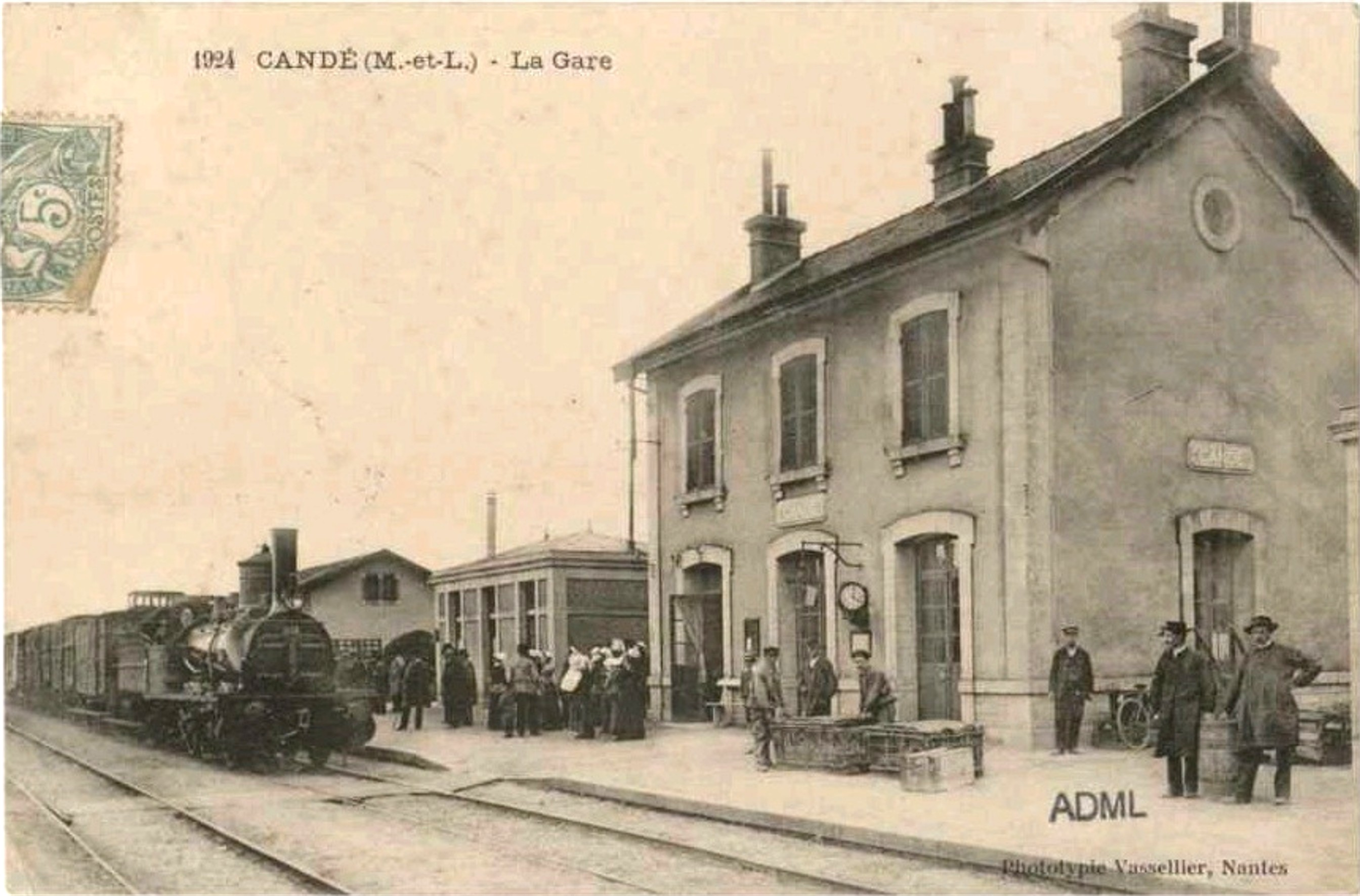 The train station in Candé (destroyed in the 1990's), Maine-et-Loire, France